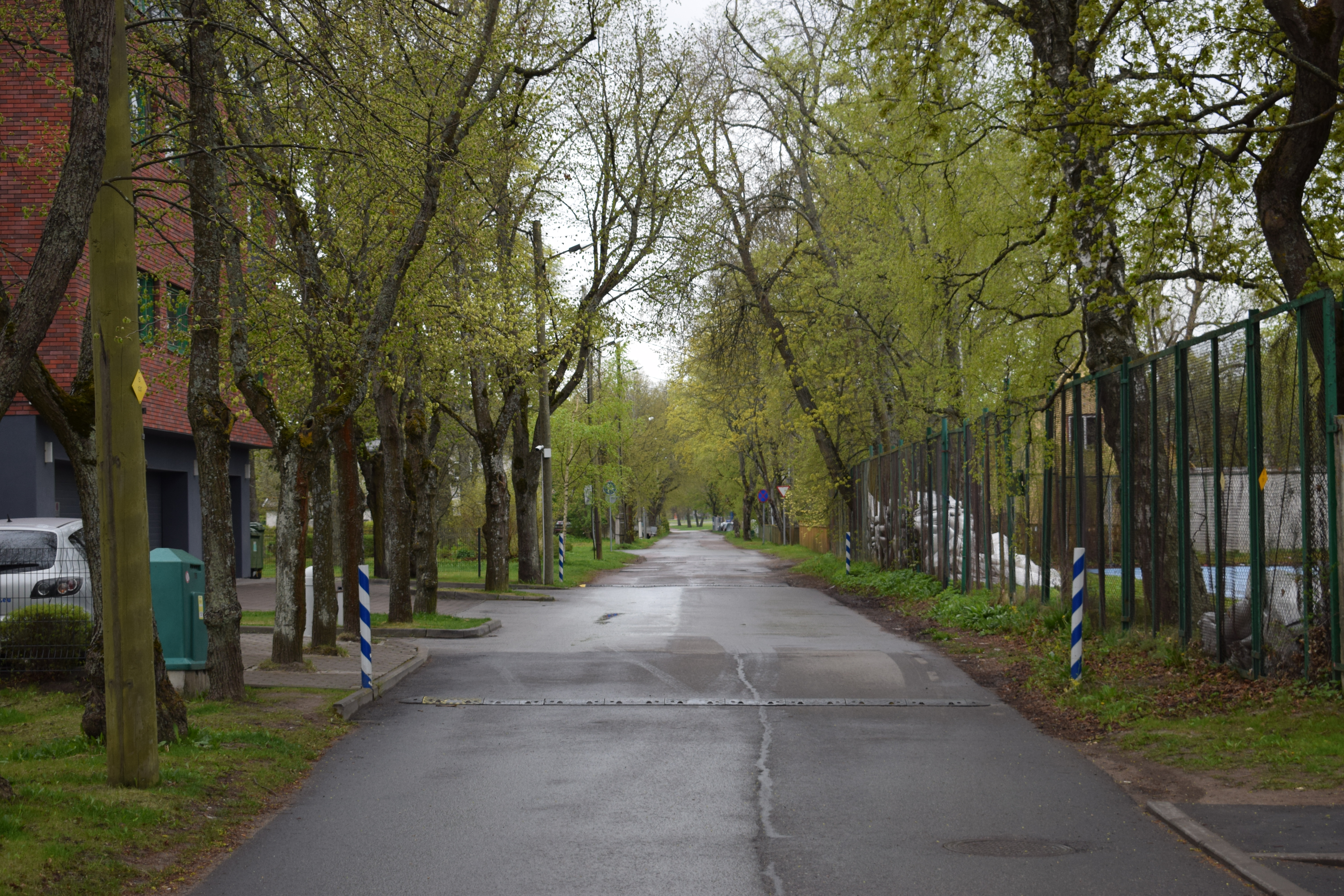 Masti tänav